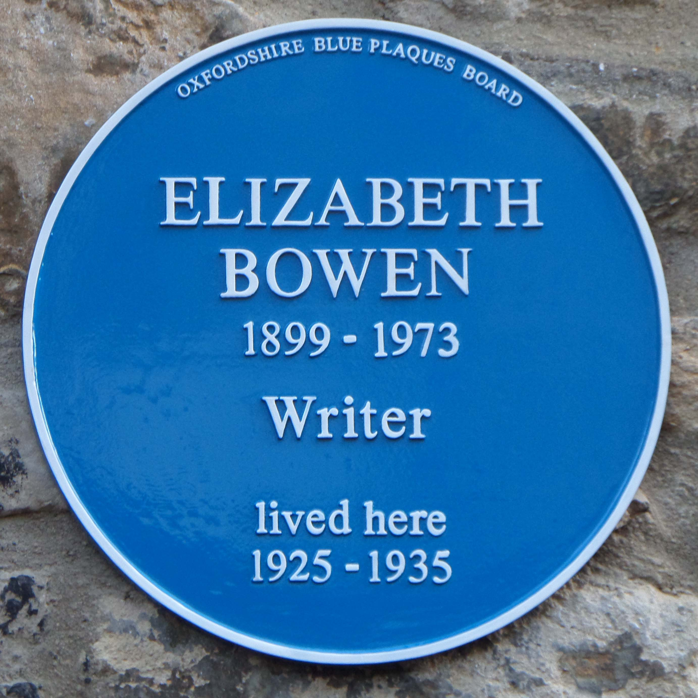 Elizabeth Bowen plaque